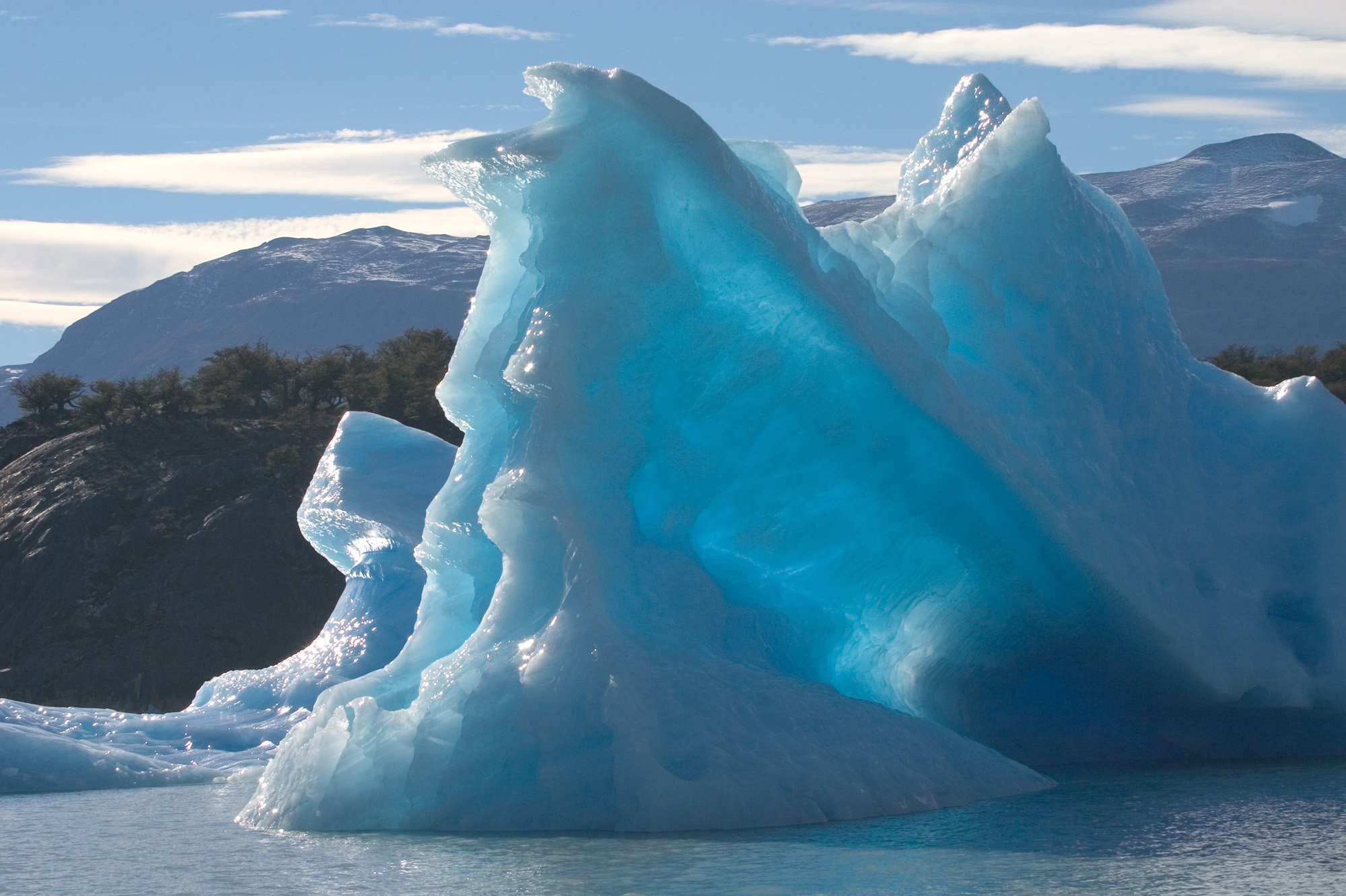 Tèmpanos (iceberg), Lago Argentino Brazo Norte, Patagonia, Argentina.